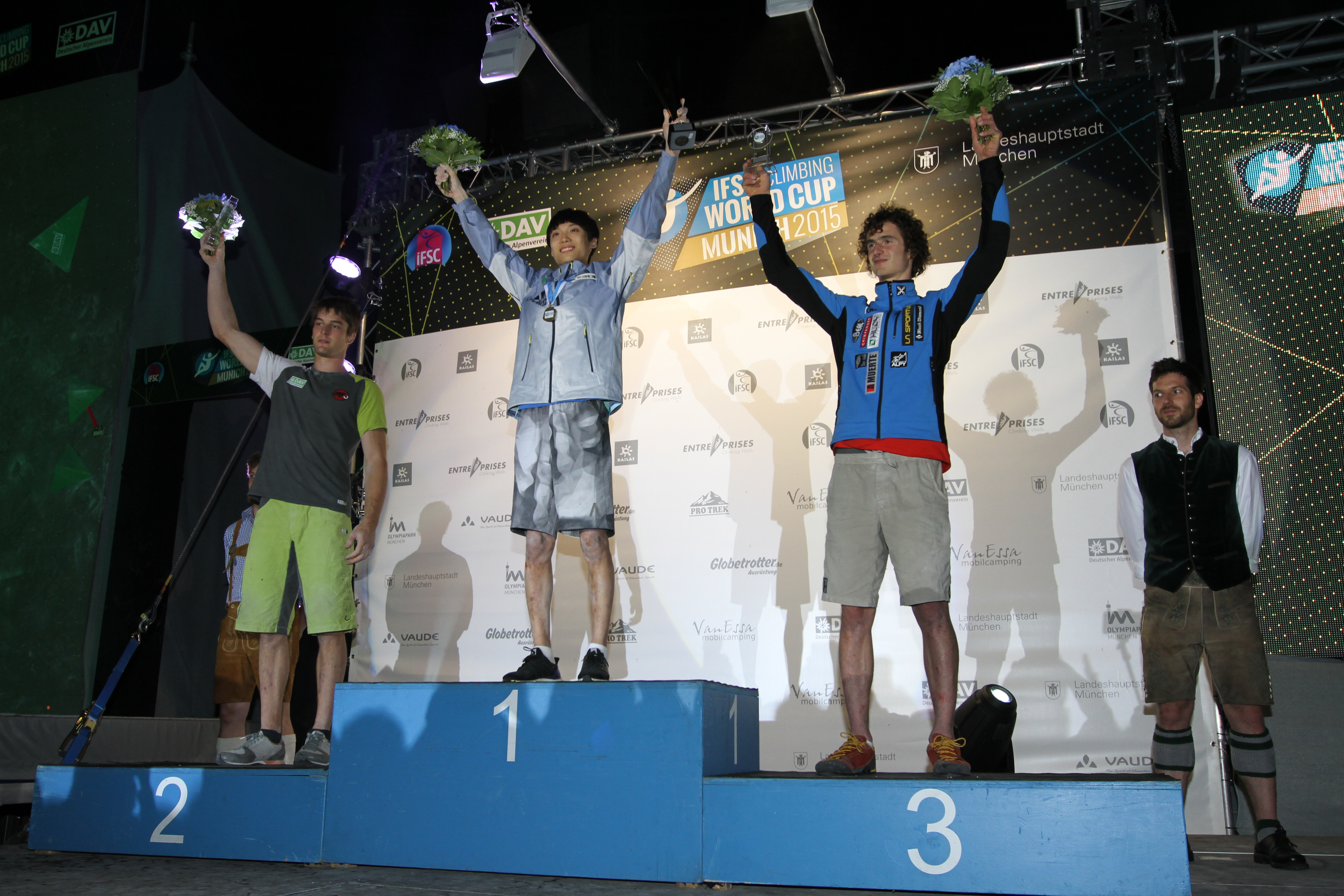 IFSC Boulder Worldcup, Munich 2015. Winners of the men's saison: 1: Chon, Jongwon (KOR), 2: Hojer, Jan (GER), 3: Ondra, Adam (CZE)